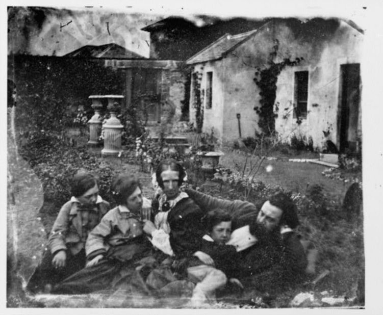 Alexander Melville Bell with his wife, Eliza Grace Symonds and their children, Melville James, Alexander Graham and Edward Charles